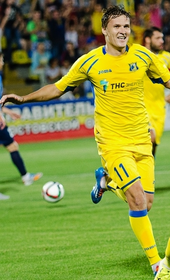 Alexandr Bukharov